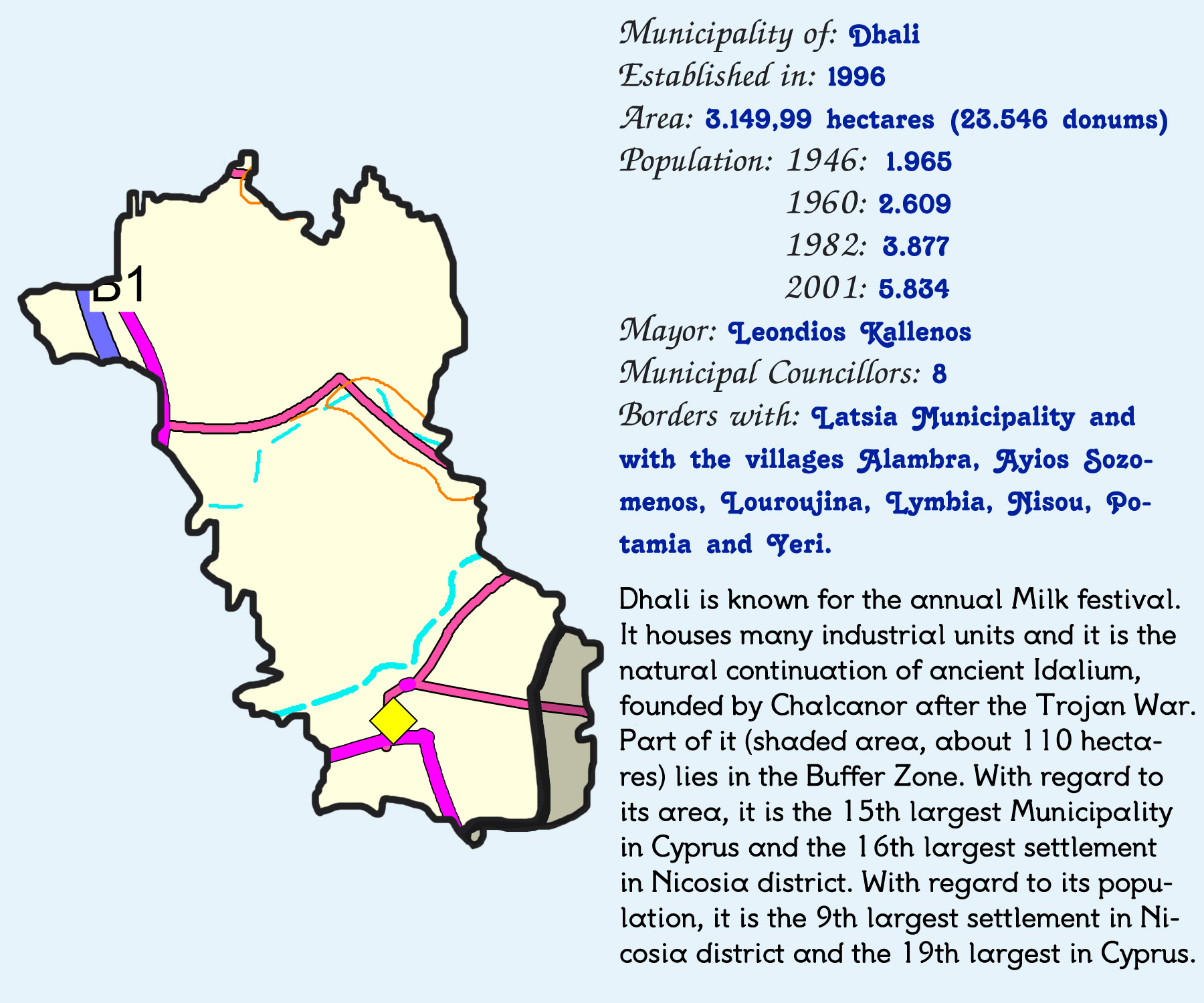 Concise presentation of Dhali